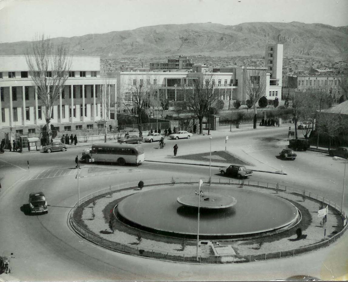 Shohada square of Tabriz, Iran